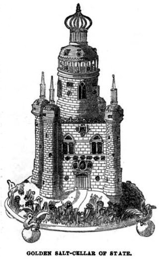 Crown Jewels / State Salt or Exeter Salt